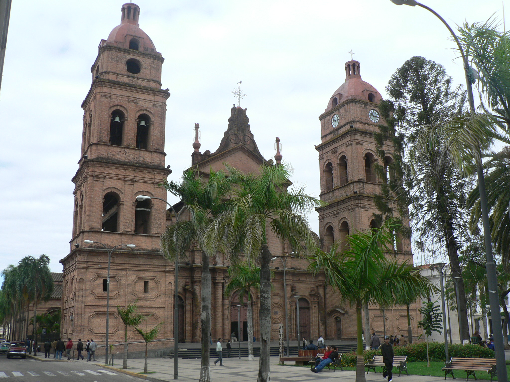 Cathedral of Santa Cruz de la Sierra, Bolivia.